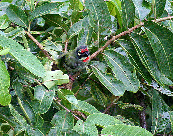 Coppersmith Barbet Megalaima haemacephala in Kolkata, West Bengal, India.